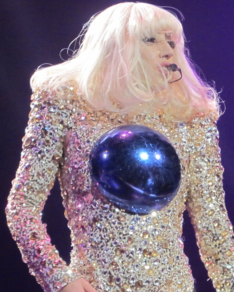 Lady Gaga performing at ArtRave: The Artpop Ball of San Diego